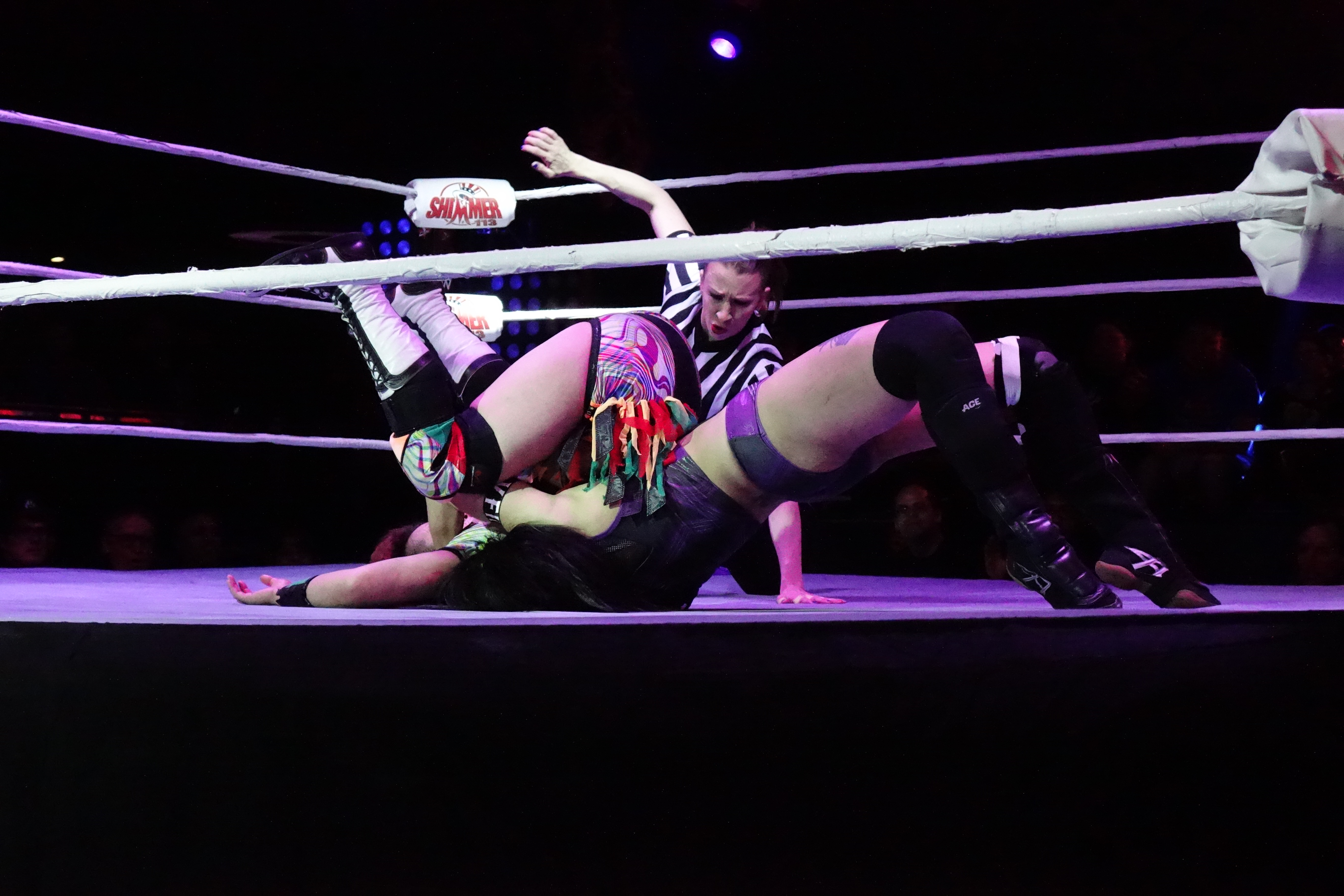 Shimmer Championship match at Shimmer 113 at La Boom in Queens, NY